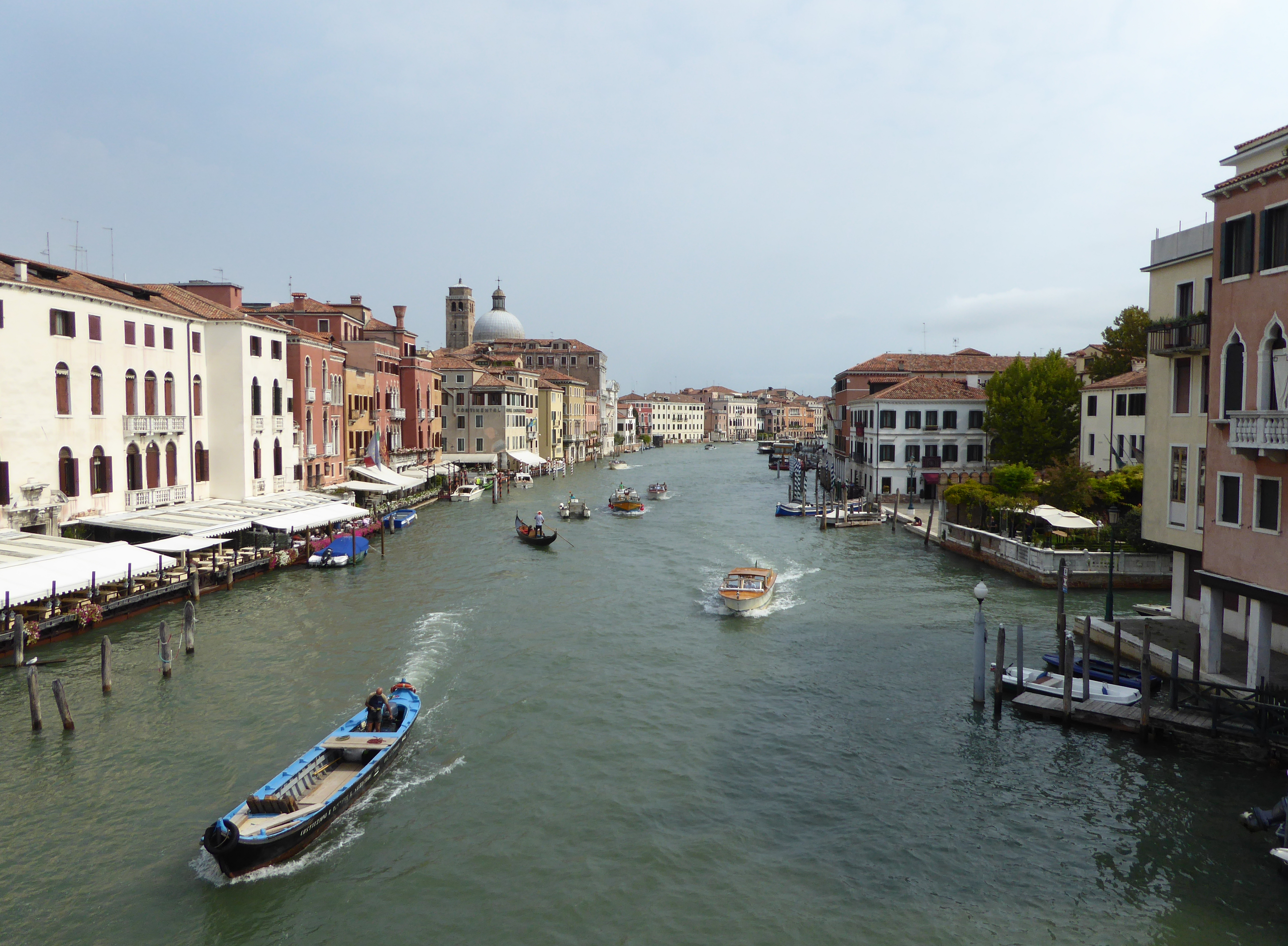 Northward view of the Grand Canal over the Ponte degli Scalzi, connecting Cannaregio and Santa Croce, Venice.